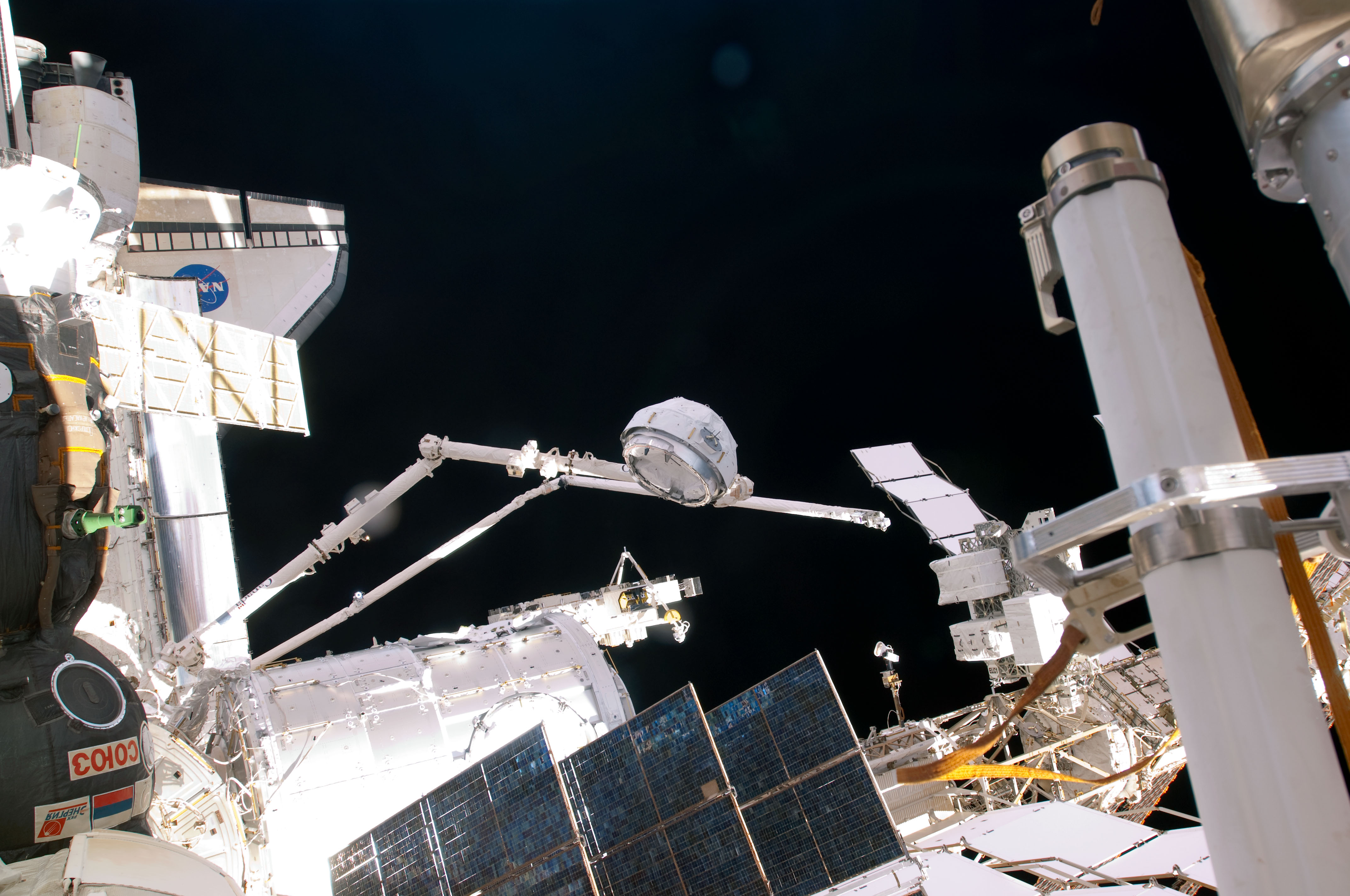 In the grasp of the Canadarm2, the cupola was relocated from the forward port to the Earth-facing port of the International Space Station's newly installed Tranquility node. The cupola is a robotic control station with six windows around its sides and another in the centre that will provide a panoramic view of Earth, celestial objects and visiting space-crafts. With the installation of Tranquility and cupola, the space station is about 90 percent complete.